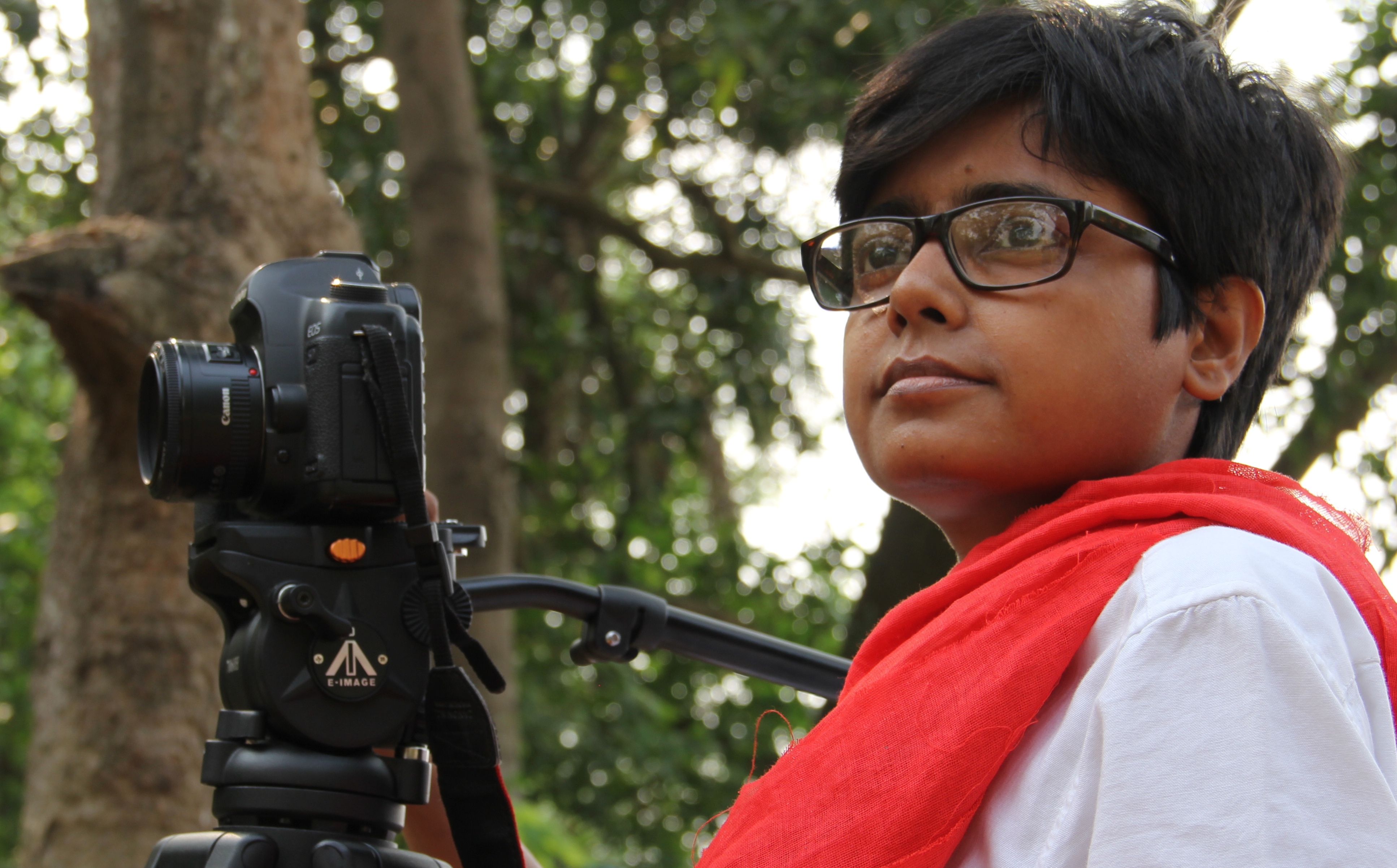 Debalina is a writer, film director and cinematographer based in Kolkata, India.